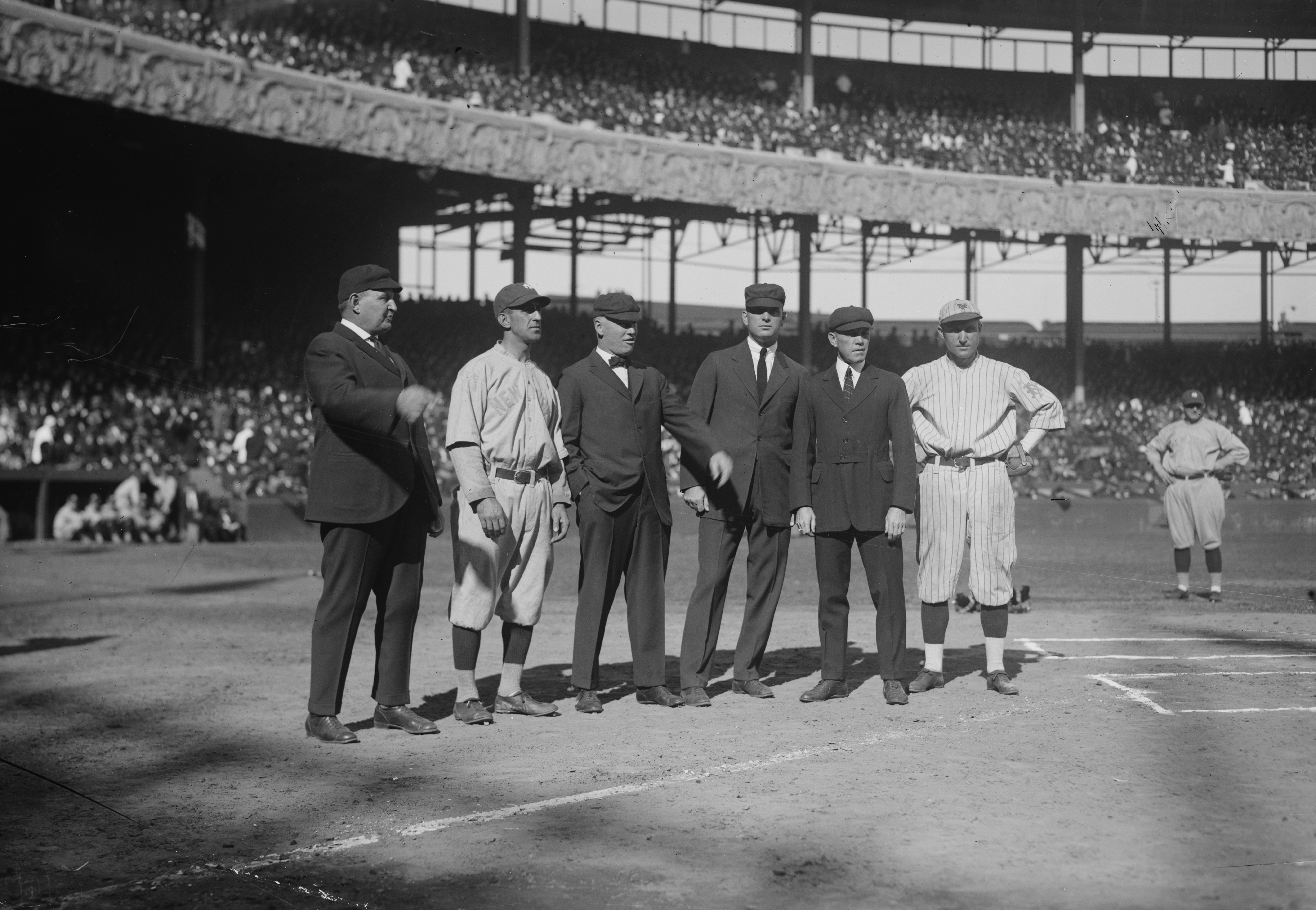 NY Yankees player Roger Peckinpaugh with NY Giants player Dave Bancroft and umpires at Polo Grounds, 1921 World Series.